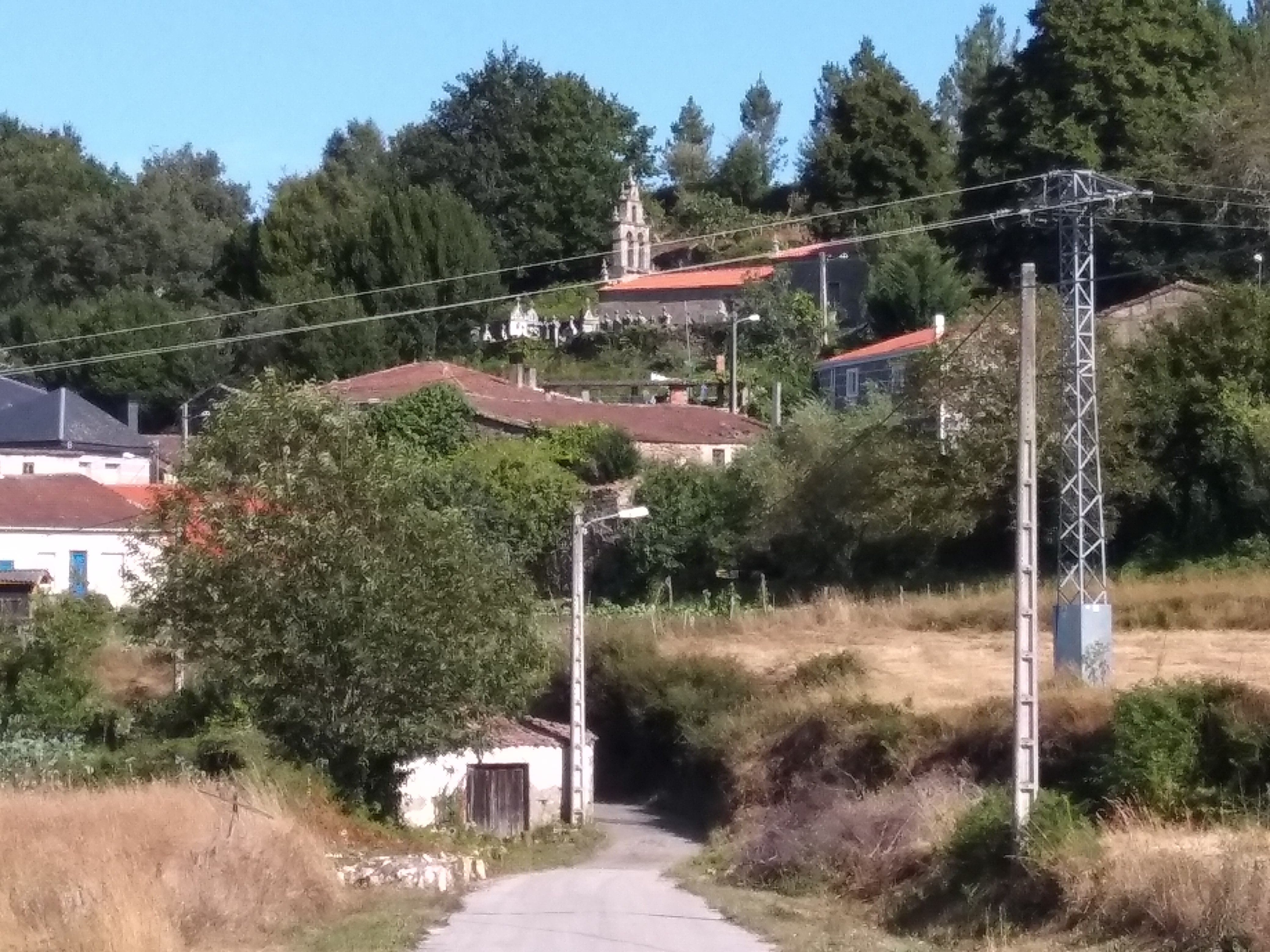 Views